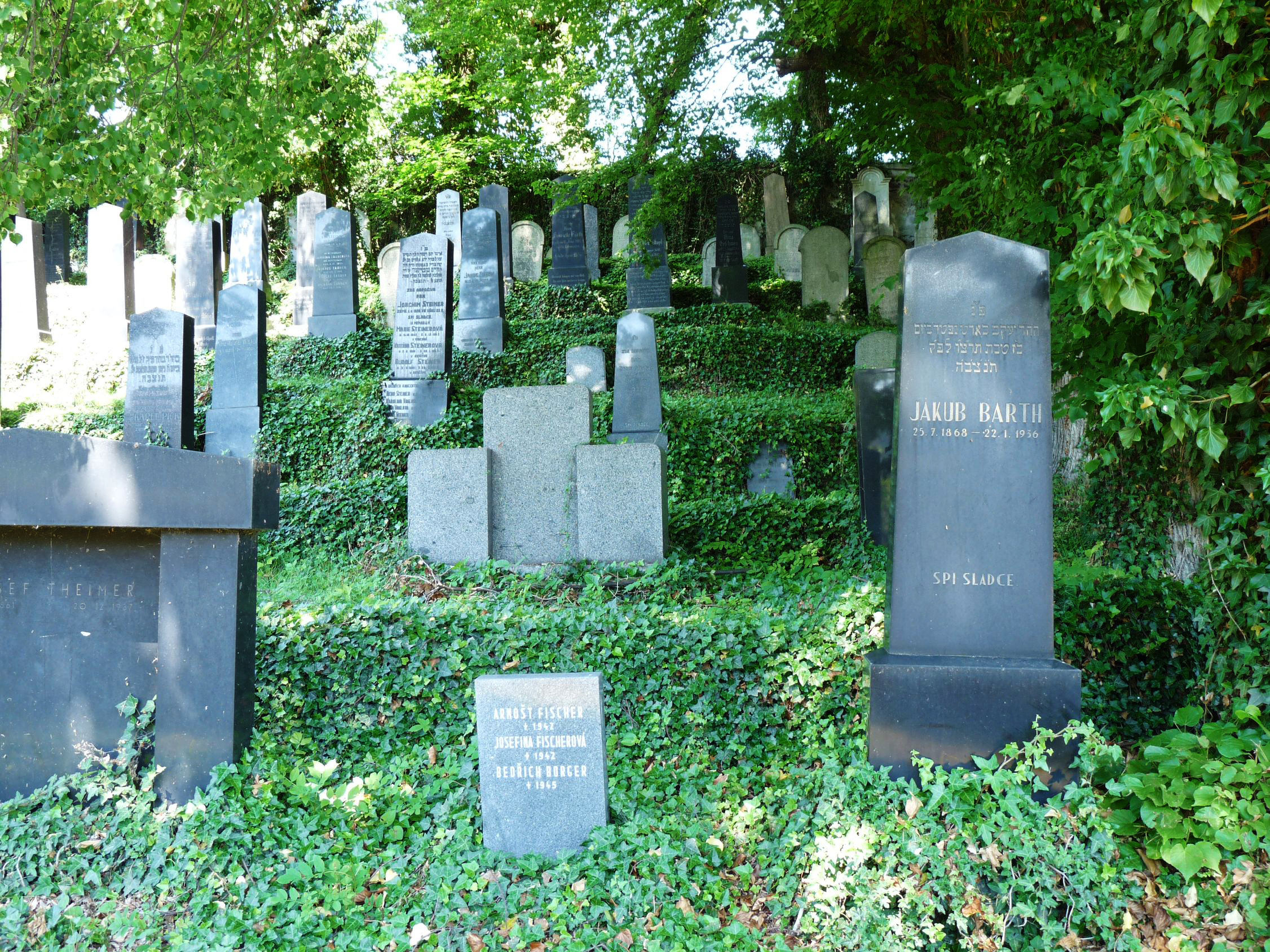 New Jewish cemetery in the town of Sušice, Klatovy District, Plzeň Region, Czech Republic